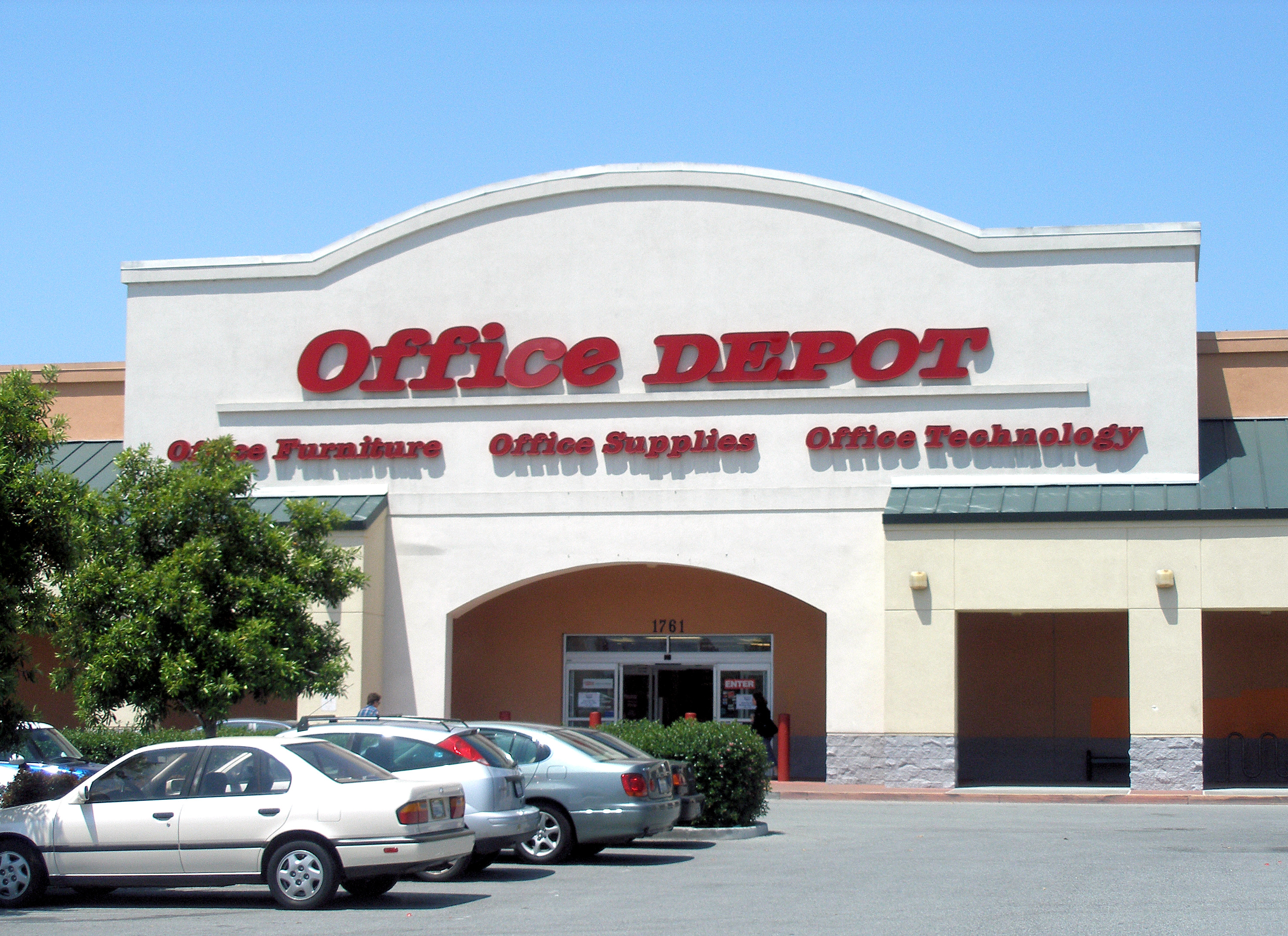 An Office Depot office supplies store in East Palo Alto.